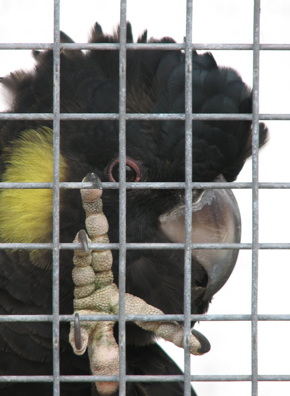 Yellow-tailed Black Cockatoo with foot on cage bars at Flying High Bird Sanctuary, Australia.